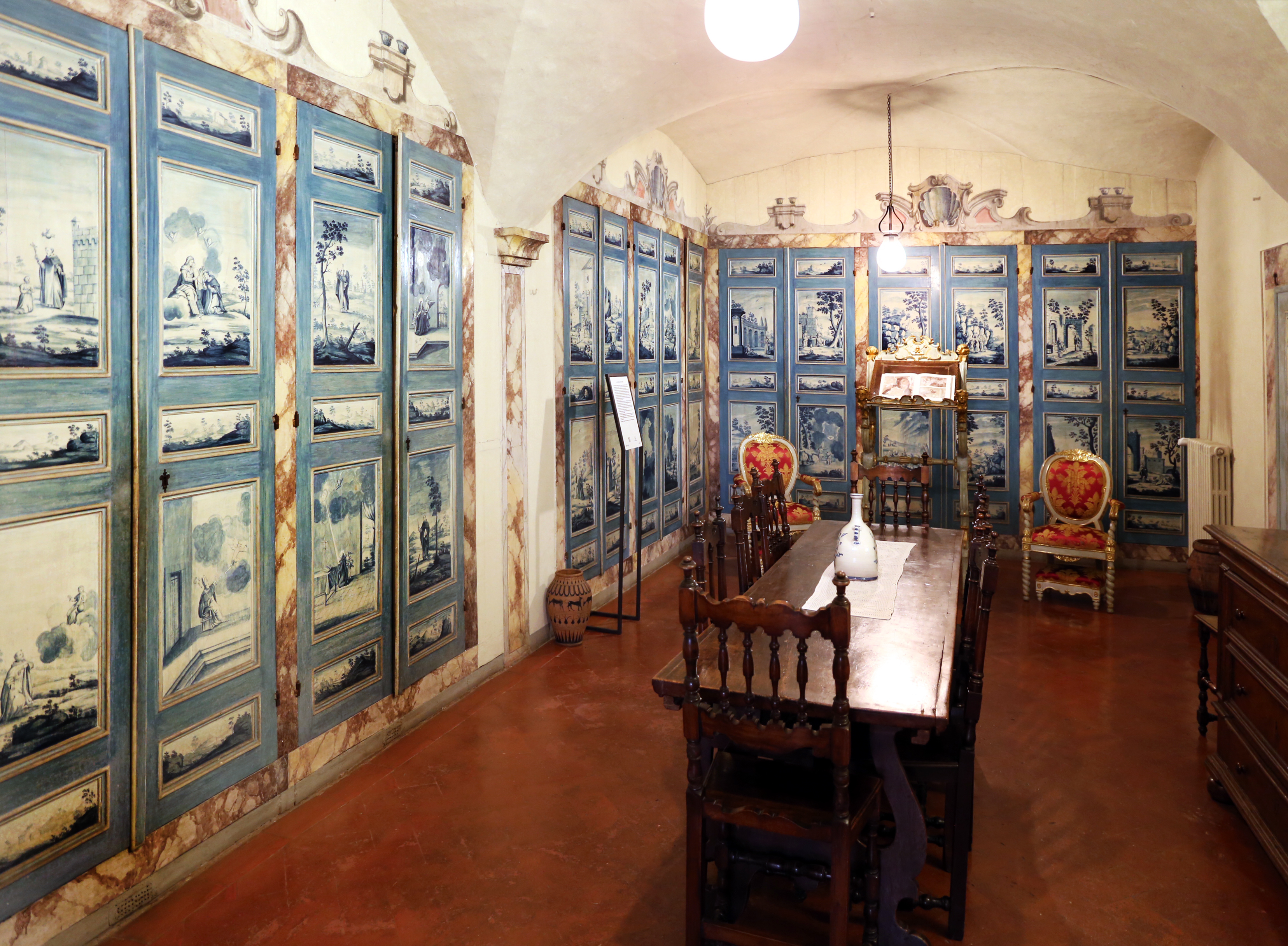 San Niccolò (Prato) - Appartamento dei Padri